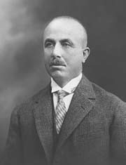 Osman Bey Erçin